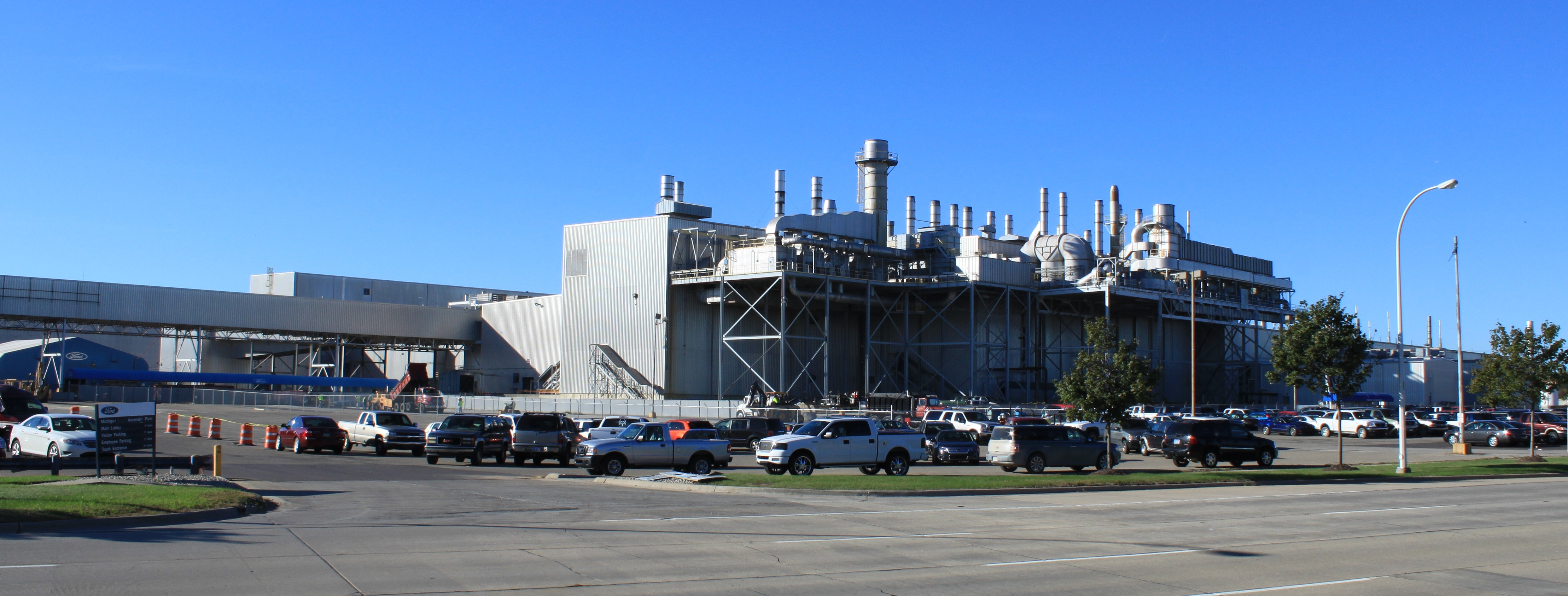 Ford Michigan Assembly Plant, Wayne, Michigan